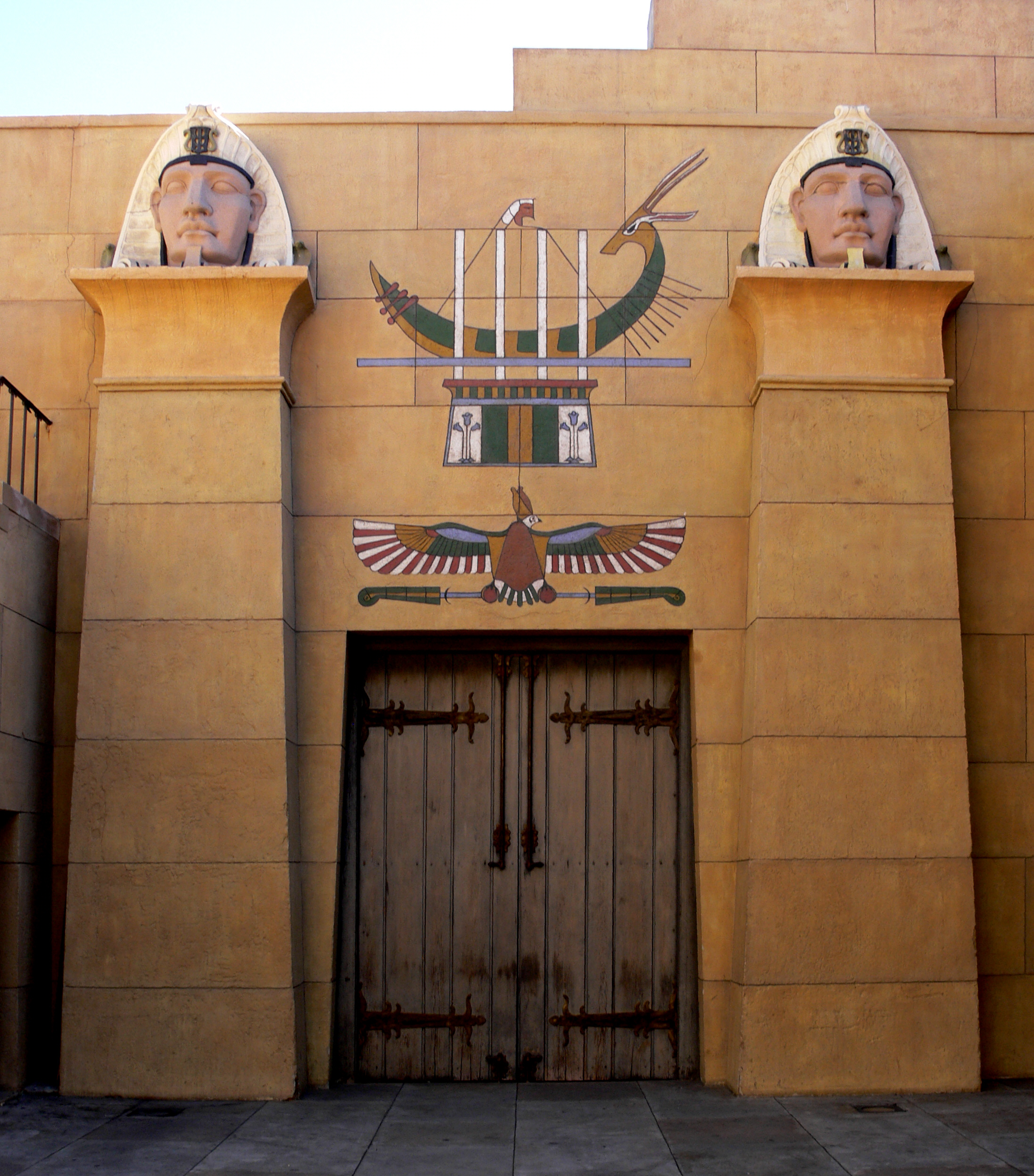 Grauman's Egyptian Theatre, Hollywood Boulevard, Hollywood, Los Angeles, California, USA Doors